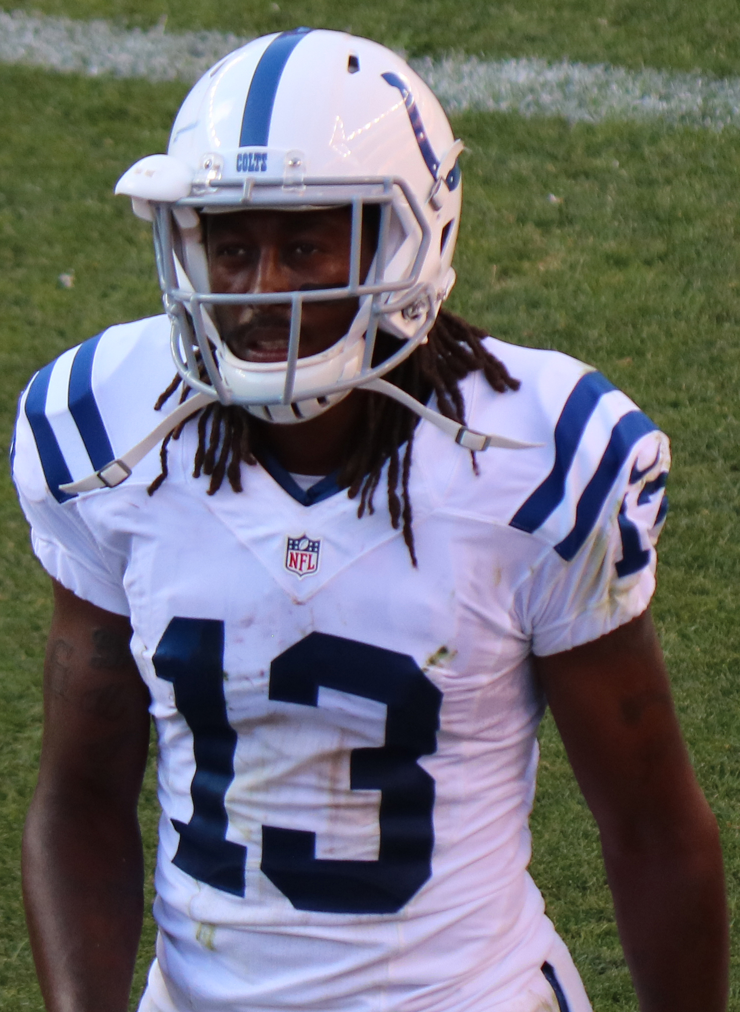 T. Y. Hilton, a player on the National Football League.